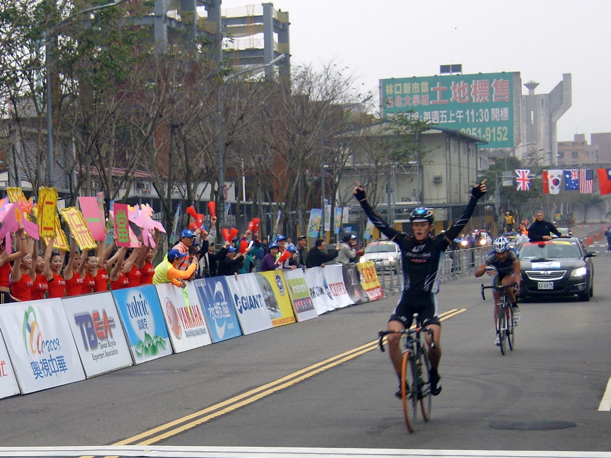 2008 Tour de Taiwan Taipei County Stage: A decisive limit of finishing.